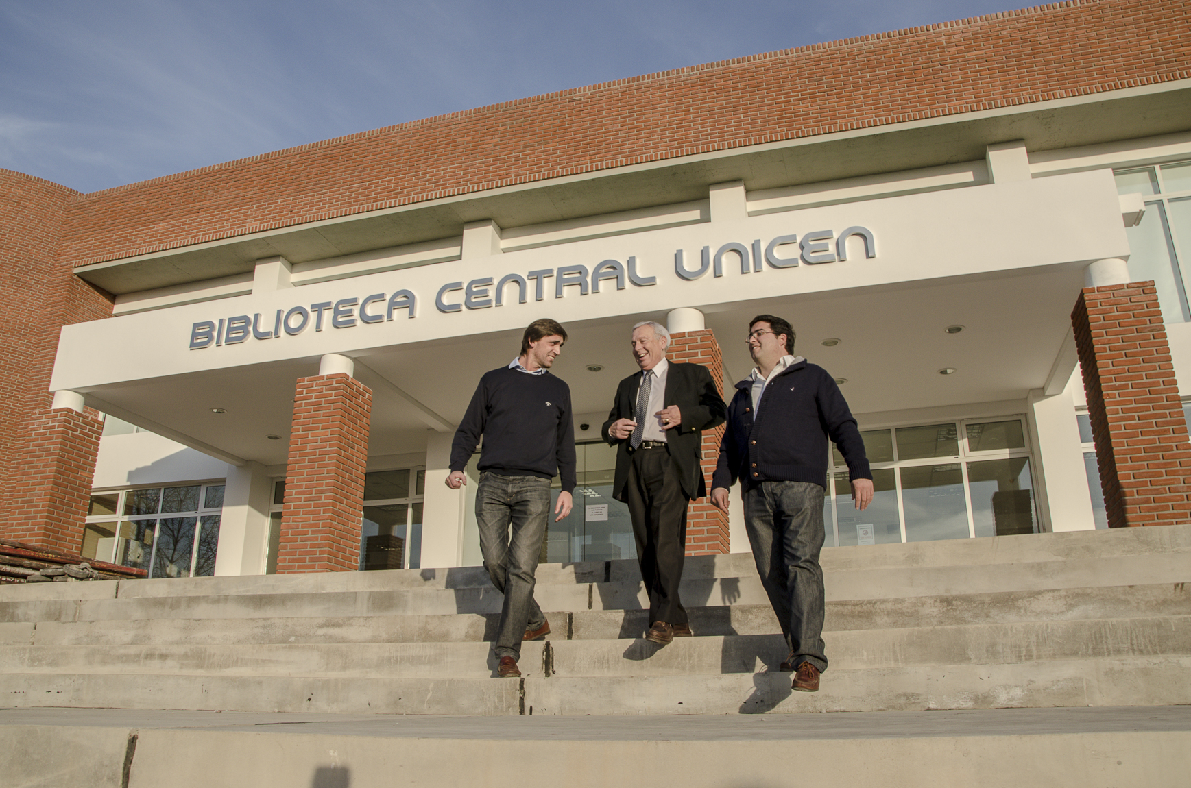 UNICEN Central Library